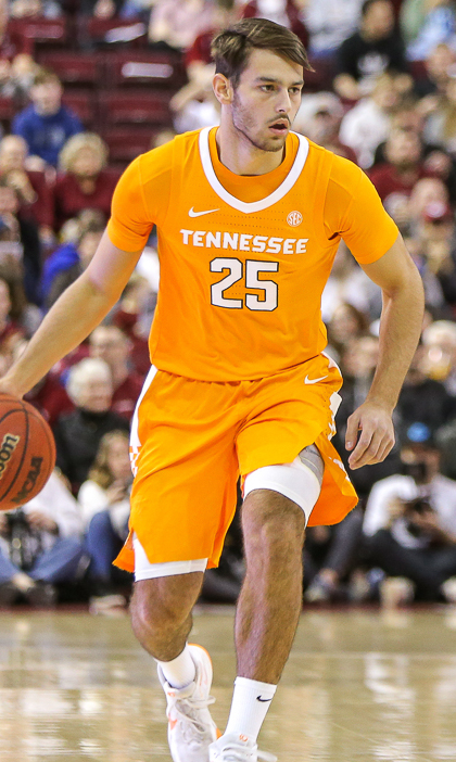 Photo by Chris Gillespie